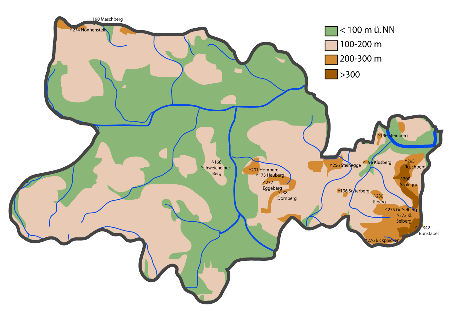 Maps of the district of Herford (Germany) series. Shows various kinds of information including topographical, demographical, and use of land information for all communities of Kreis Herford and the district of Herford itstelf. Lizenz also free to use these maps as a starting point for your new improved versions.